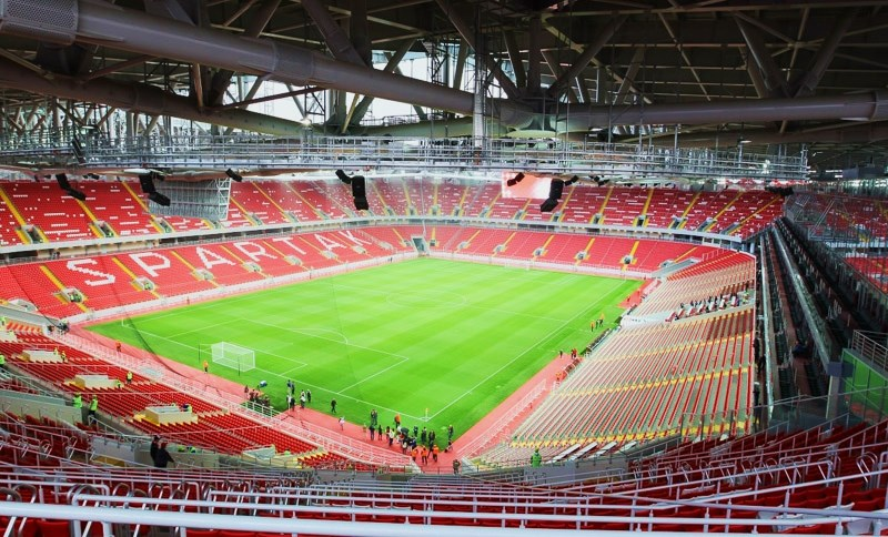 Otkrytie Arena